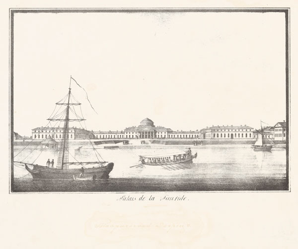 palais de la tauride